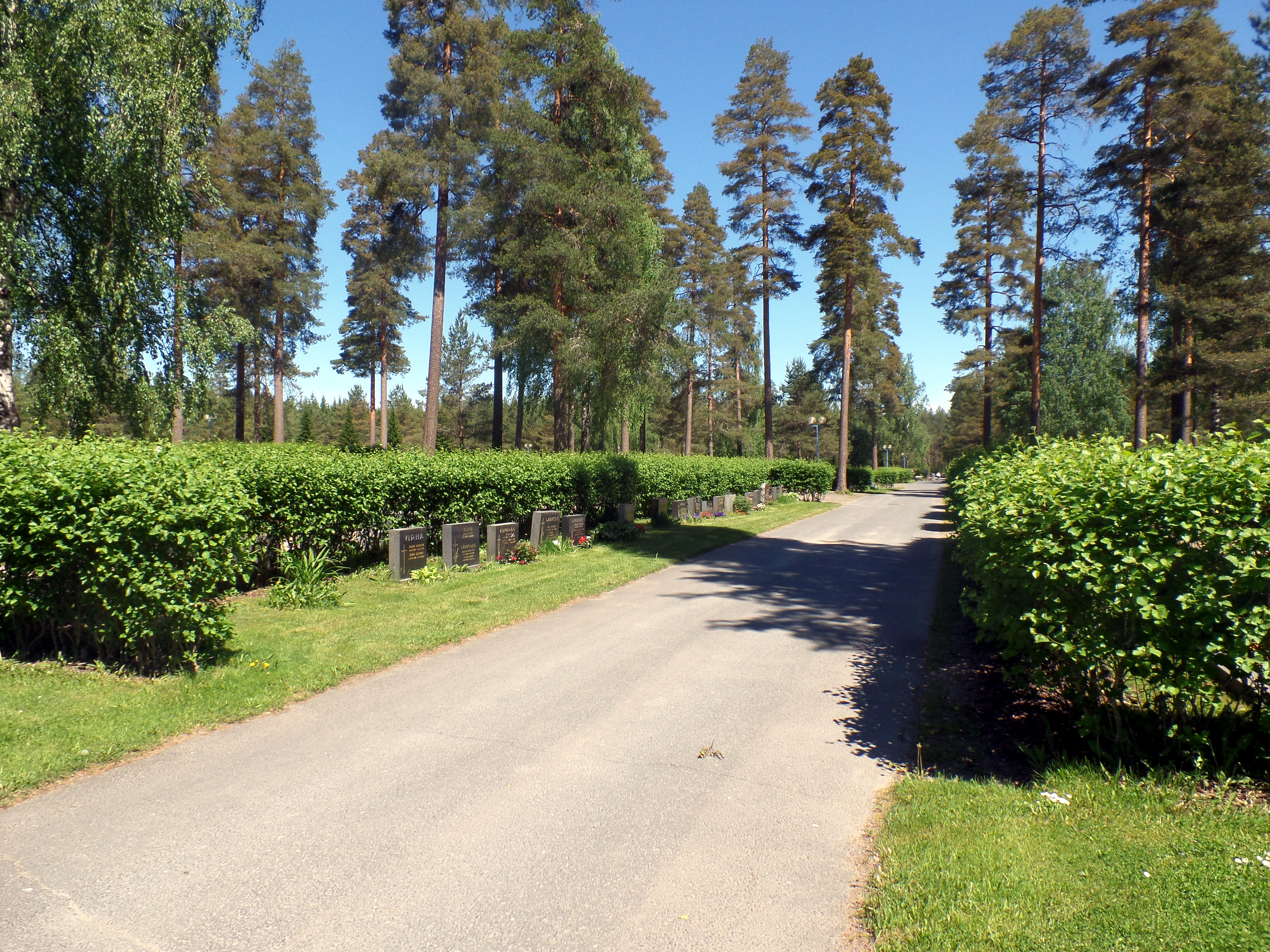 Rauhannummi cemetary of Hyvinkää Evangelical Lutheran Congregation, located in Hausjärvi.